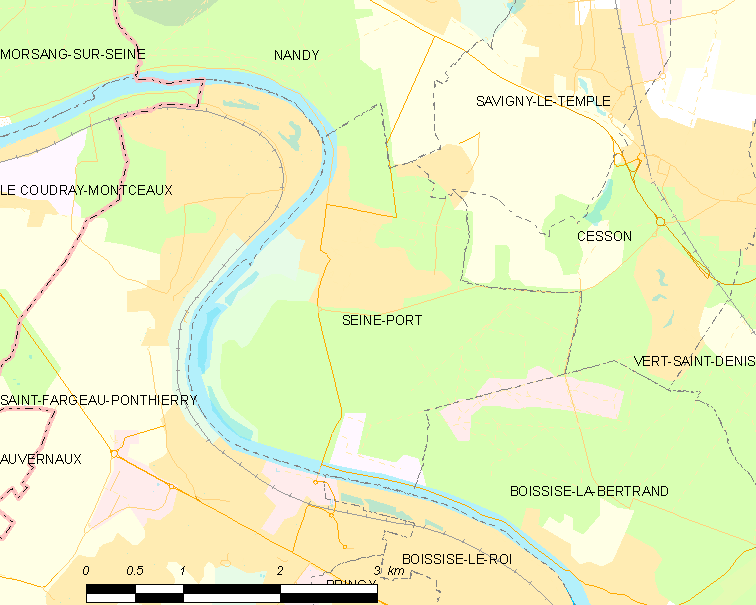 Map of French municipality Seine-Port